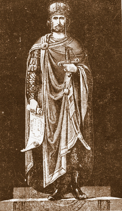 Artistic view of King David the Builder of Georgia (1089-1125)